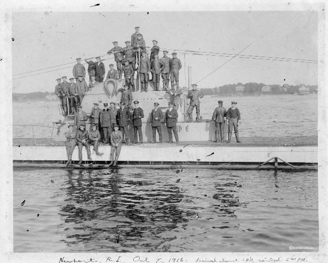 S.M. Unterseeboot U-53, 10/7/1916. Before Americas entry into the First World War U-53 sailed into Newport, R.I.